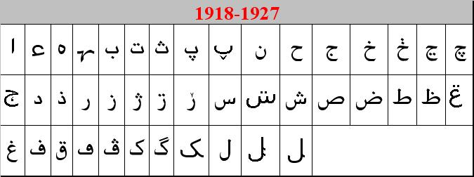 adige arabian alphabet